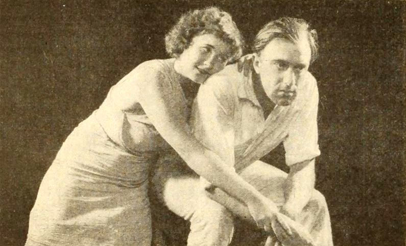 Still from the American silent film The Shark Master (1921) with May Collins and Frank Mayo, page 62 of the November 1921 Photoplay.